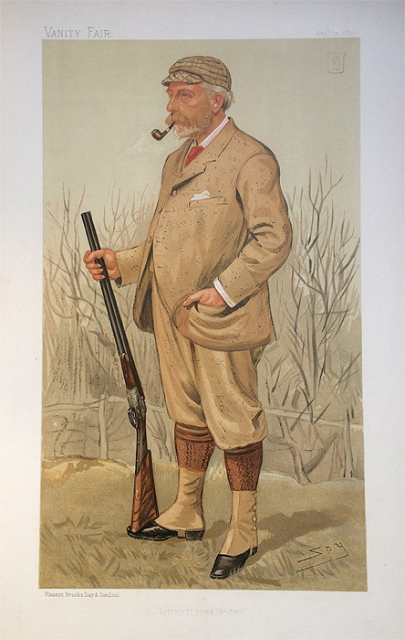 Men of the Day No.0572: Caricature of Sir RW Payne-Gallwey Bt. Caption reads: "Letters to young Shooters"